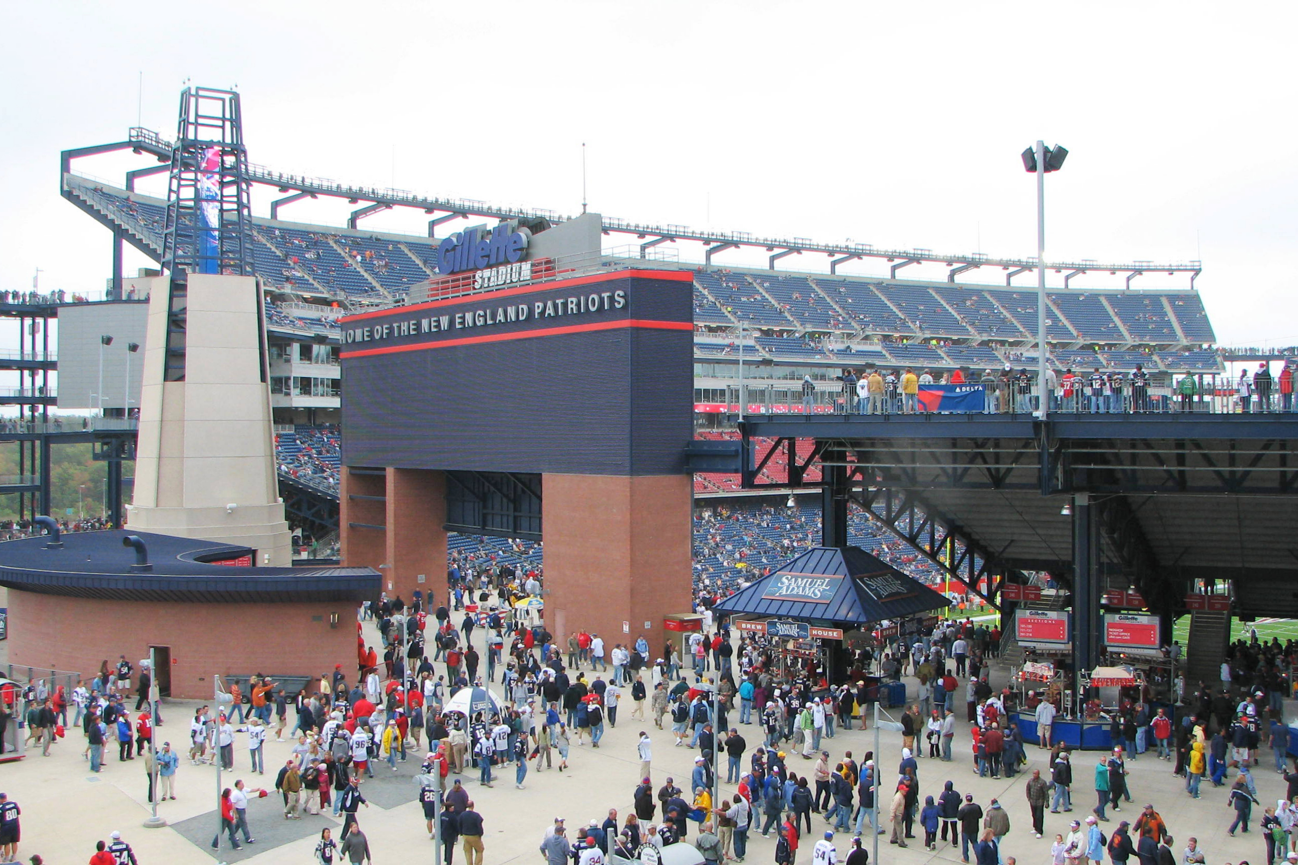 Gillette Stadium main entrance, Foxboro, Massachusetts, USA